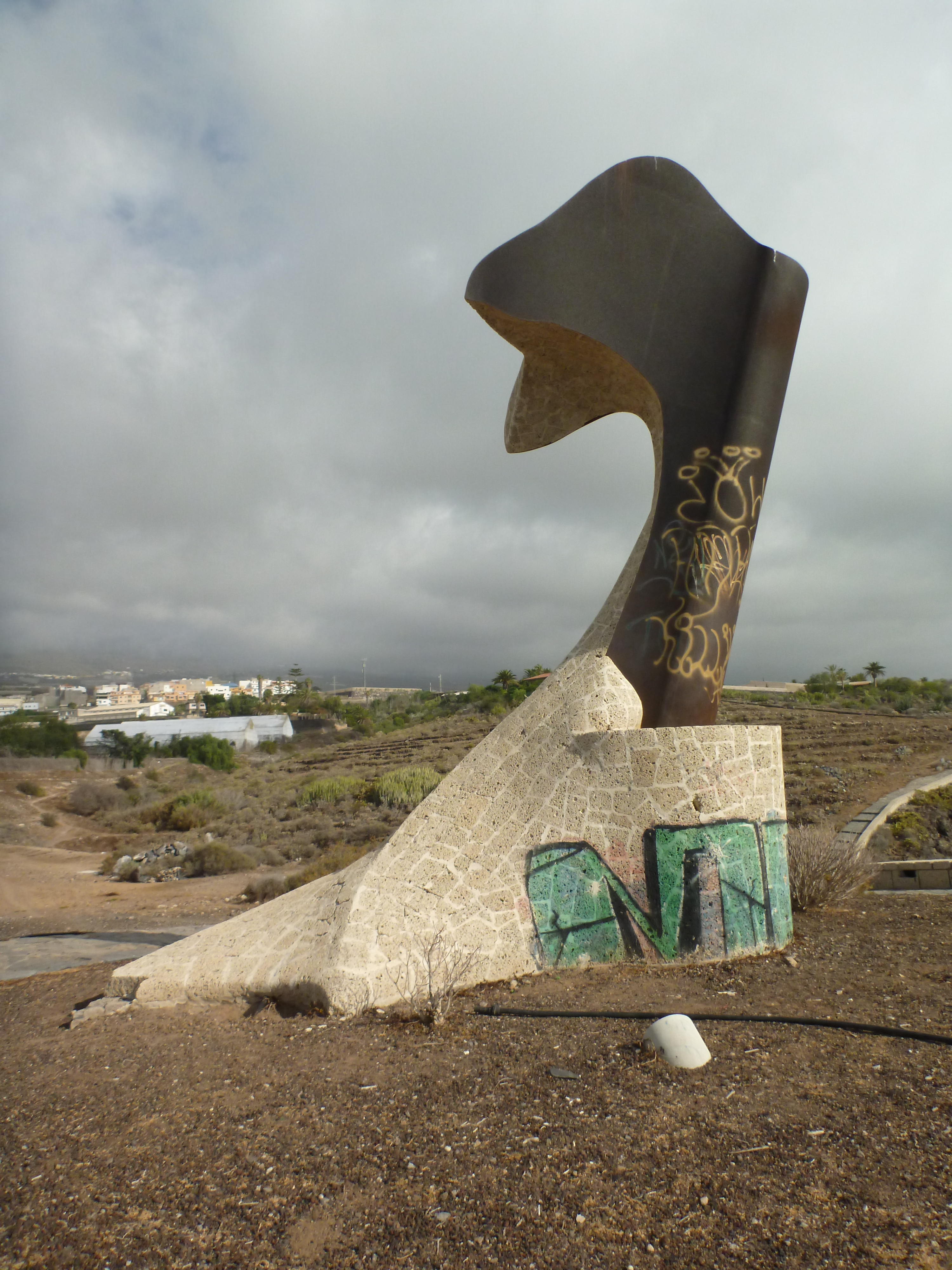 Alcaravan sculpture at the coast of Playa San Juan